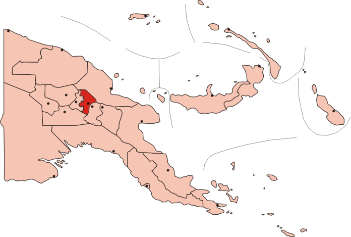 Jiwaka Province - Papua New Guinea